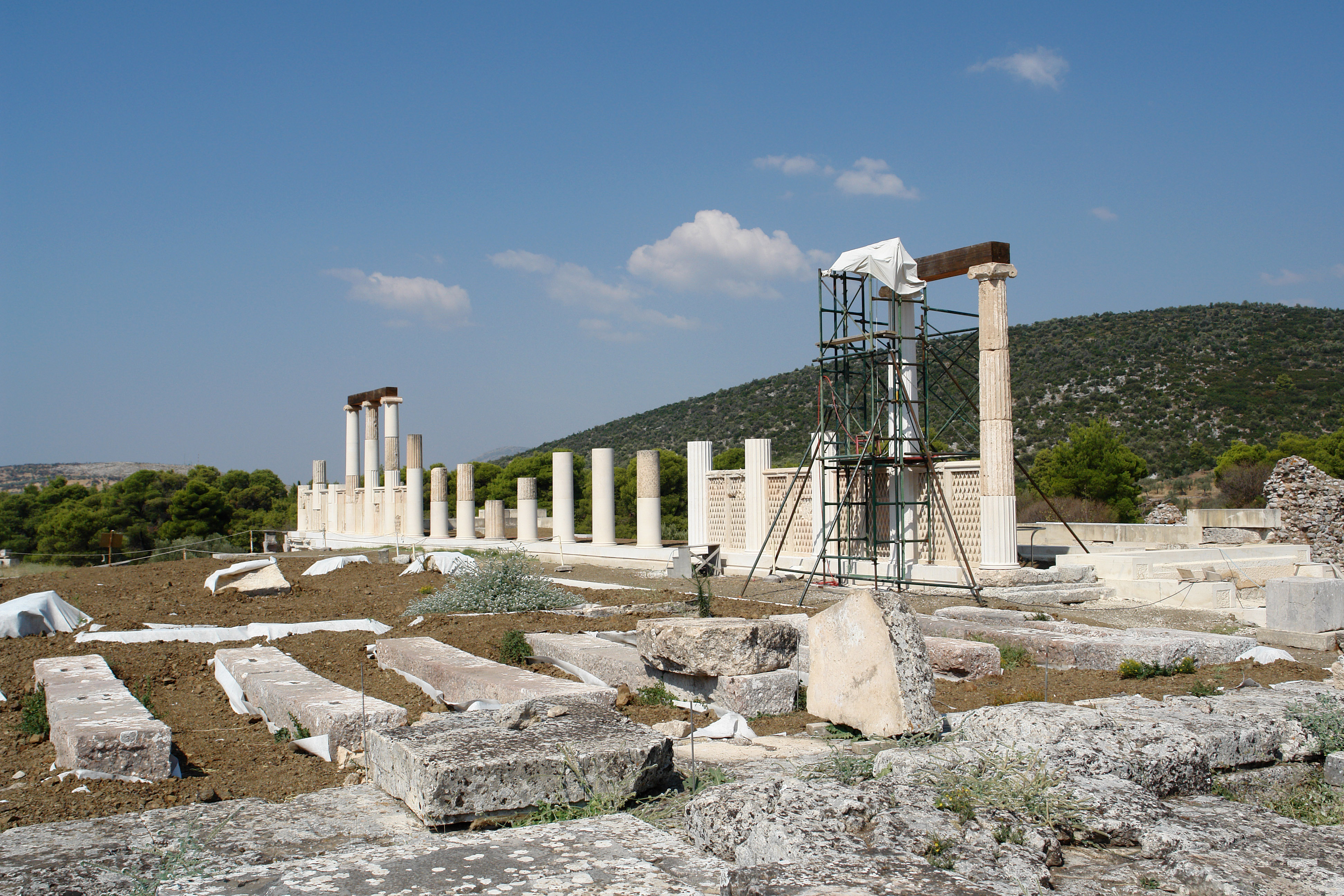 The ruins of the Abaton in ancient Epidauros.